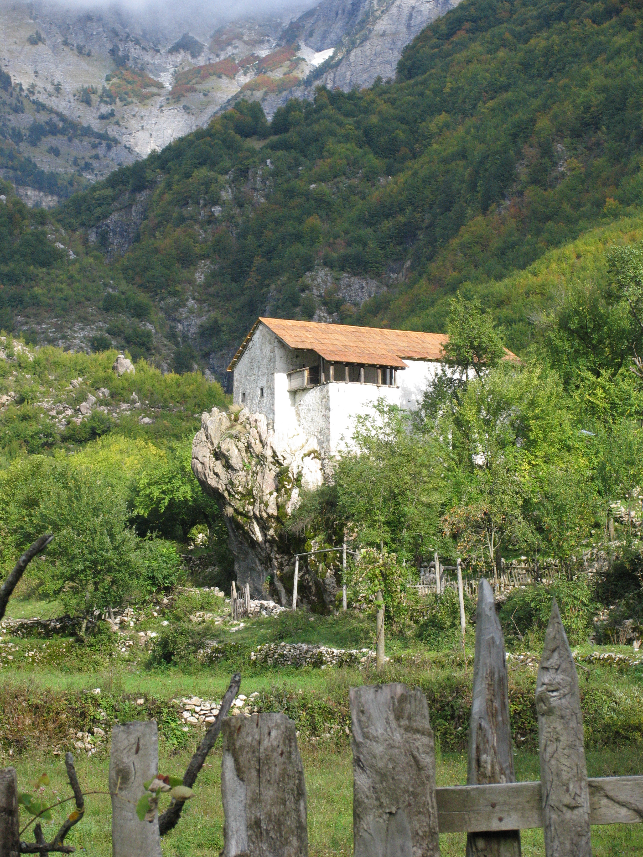 Fortified house, Thethi, northern Albania.